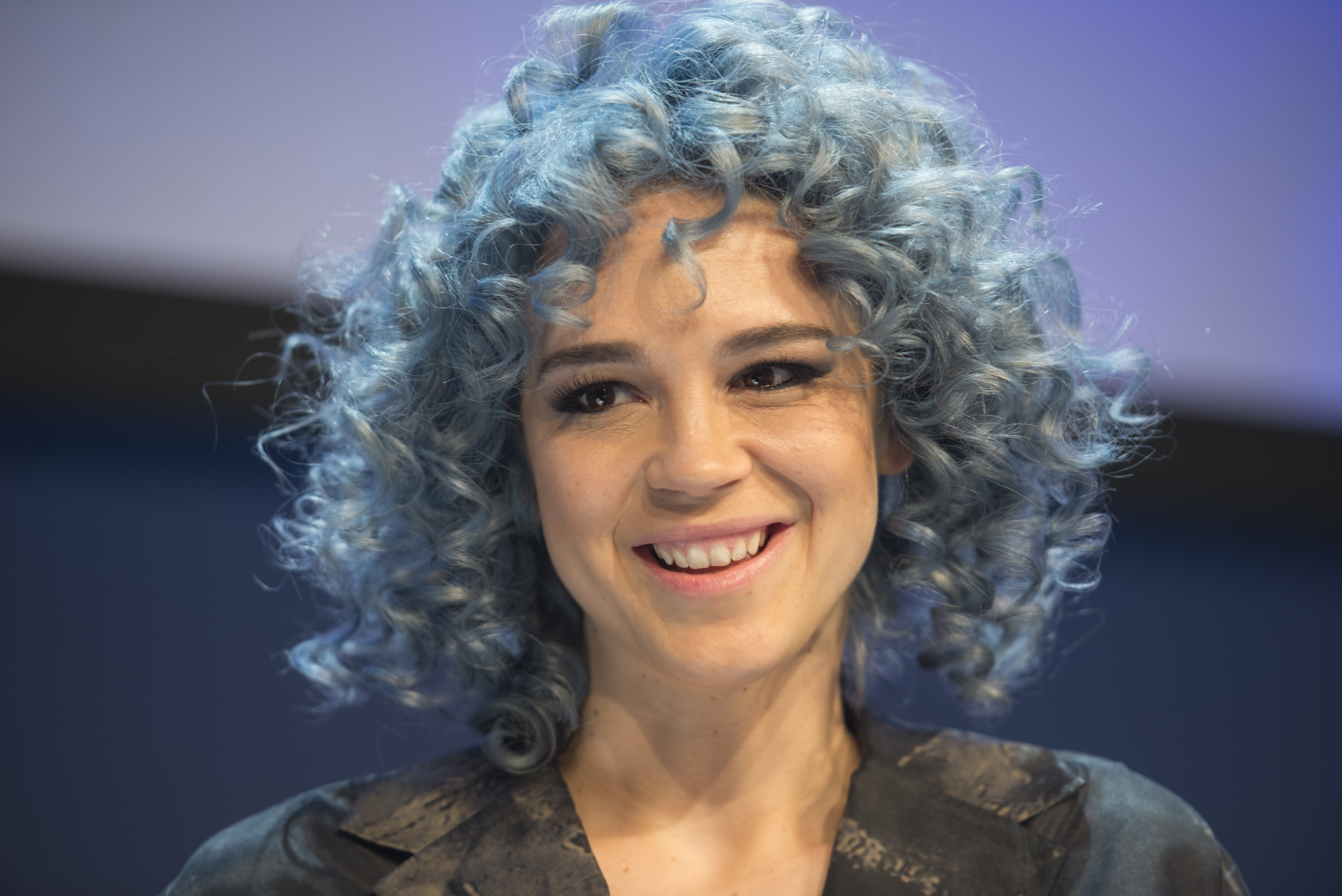 Rykka at a Meet & Greet during the Eurovision Song Contest 2016 in Stockholm. (Help translate this text)